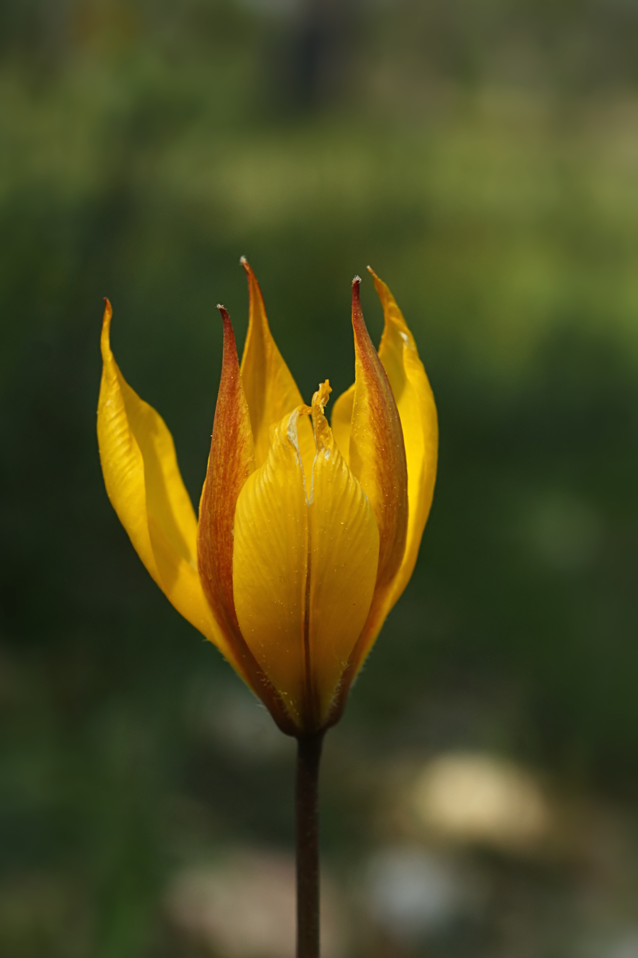 Southern Tulip at Bois du Rouquan, Var, France